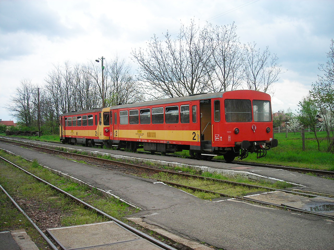 Bzmot in Tiszalök railway station